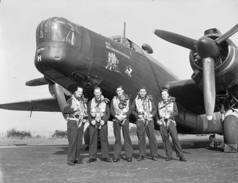 The first all Australian crew in Bomber Command to complete a tour of operations (with No 466 Squadron, Royal Australian Air Force) stand in front of their Vickers Wellington bomber at RAF Leconfield, Yorkshire. Left to right: Flight Sergeant J P Hetherington (bomb aimer) Pilot Officer A C Winston (rear gunner) Pilot Officer J H Cameron (captain) Flight Sergeant J Samuels (W/O - air gunner) Pilot Officer J J Allan (navigator)